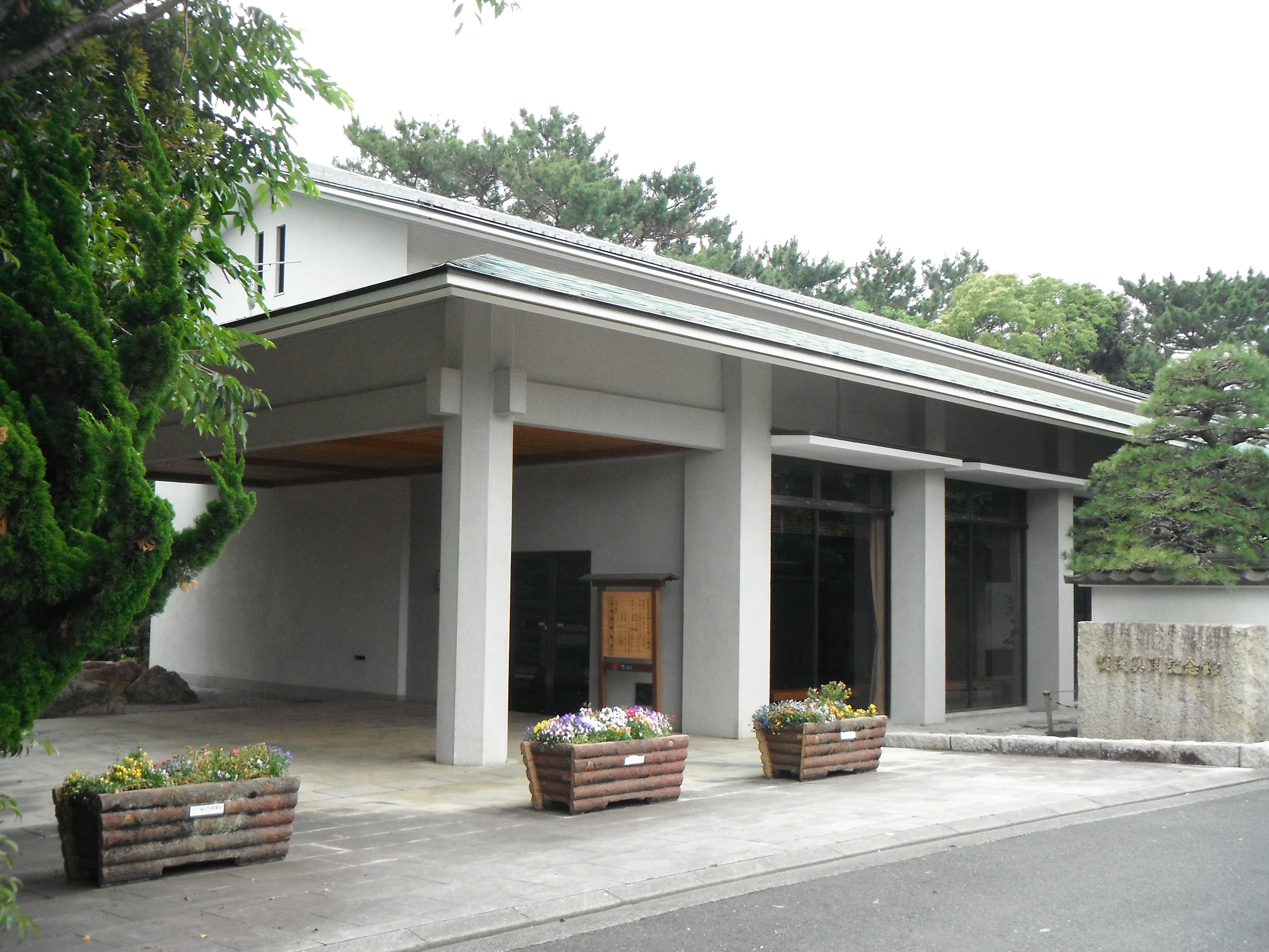 Kamo no Mabuchi Memorial Hall